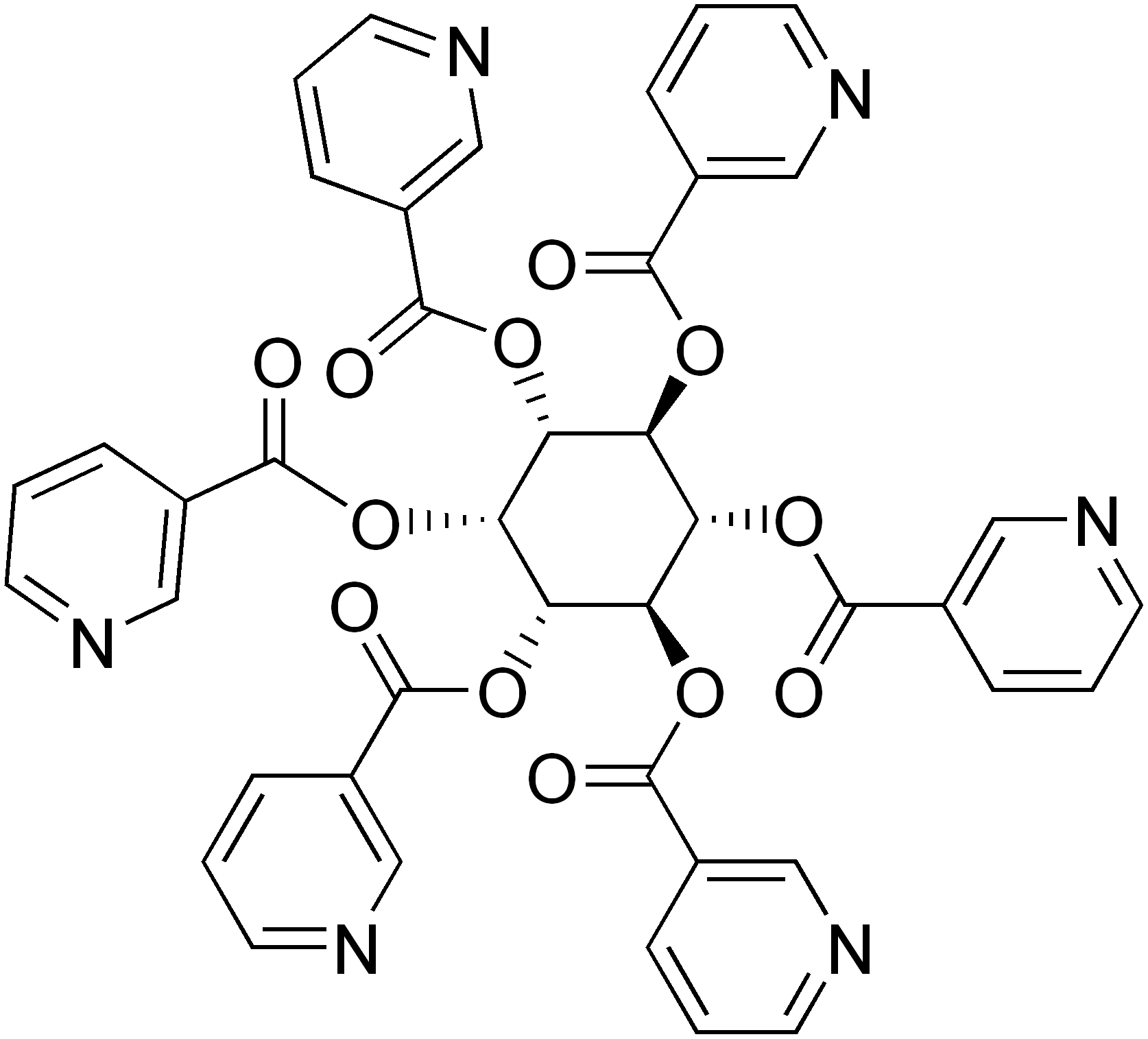 chemical structure of Inositol nicotinate